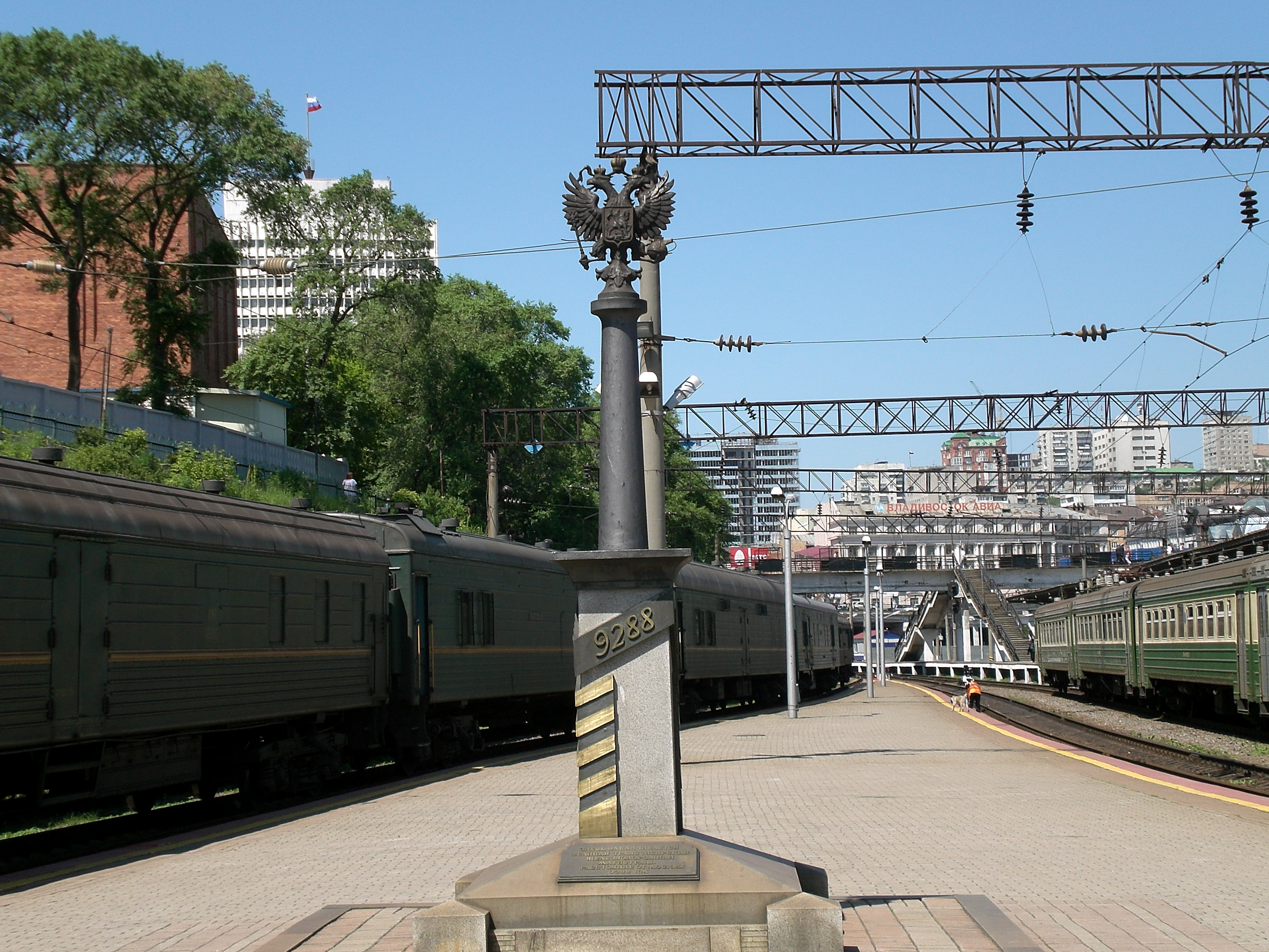 Distance monument at Vladivostok railway station